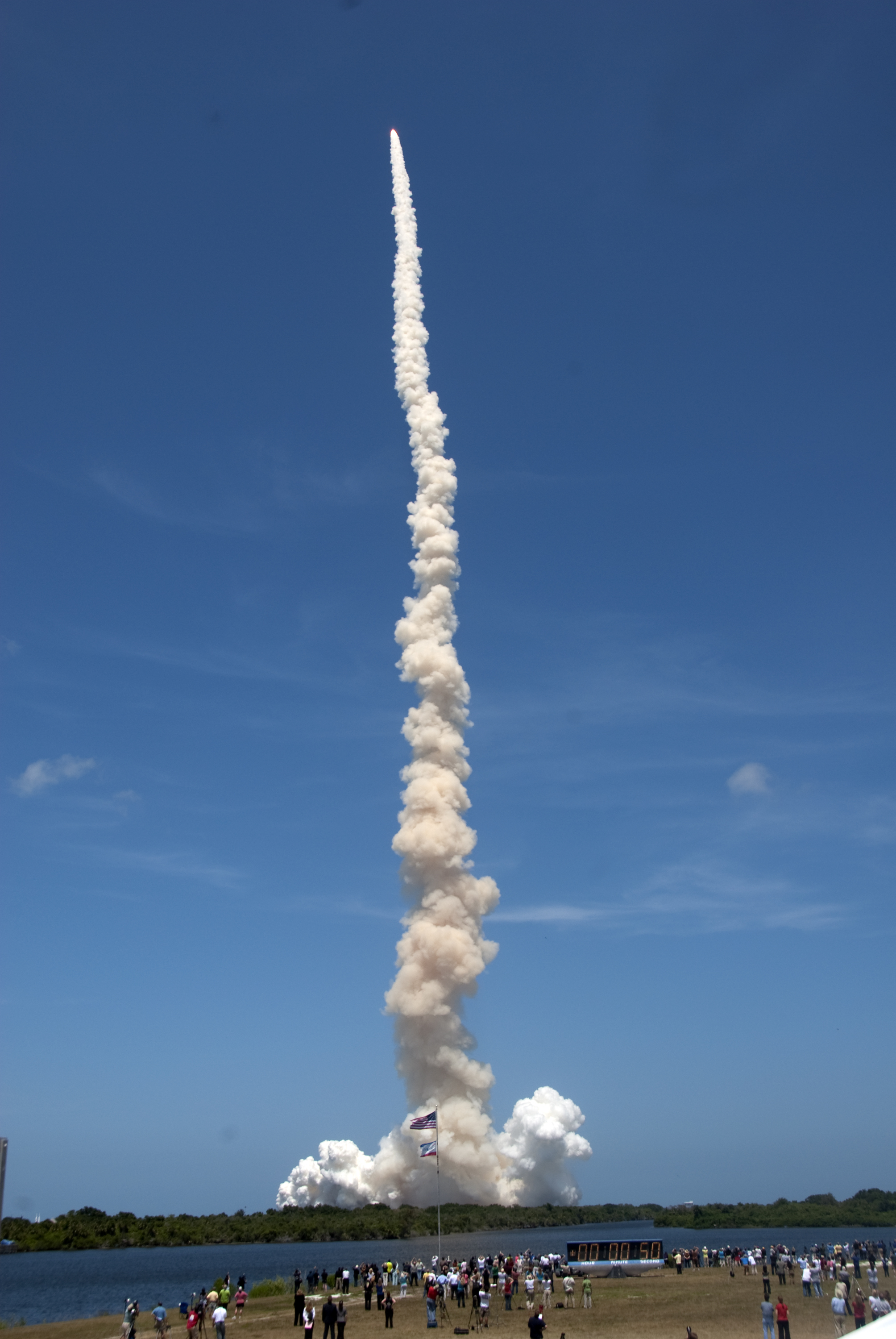 Members of the media and STS-132 Tweetup participants gather near the countdown clock to watch space shuttle Atlantis lift off from Launch Pad 39A at NASA's Kennedy Space Center in Florida on the STS-132 mission to the International Space Station at 2:20 p.m. EDT on May 14. The third of five shuttle missions planned for 2010, this was the last planned launch for Atlantis. The Russian-built Mini Research Module-1 is inside the shuttle's cargo bay. Also known as Rassvet, or "dawn," it will provide additional storage space and a new docking port for Russian Soyuz and Progress spacecraft. The laboratory will be attached to the bottom port of the station's Zarya module. The mission's three spacewalks will focus on storing spare components outside the station, including six batteries, a communications antenna and parts for the Canadian Dextre robotic arm. STS-132 is the 132nd shuttle flight, the 32nd for Atlantis and the 34th shuttle mission dedicated to station assembly and maintenance.